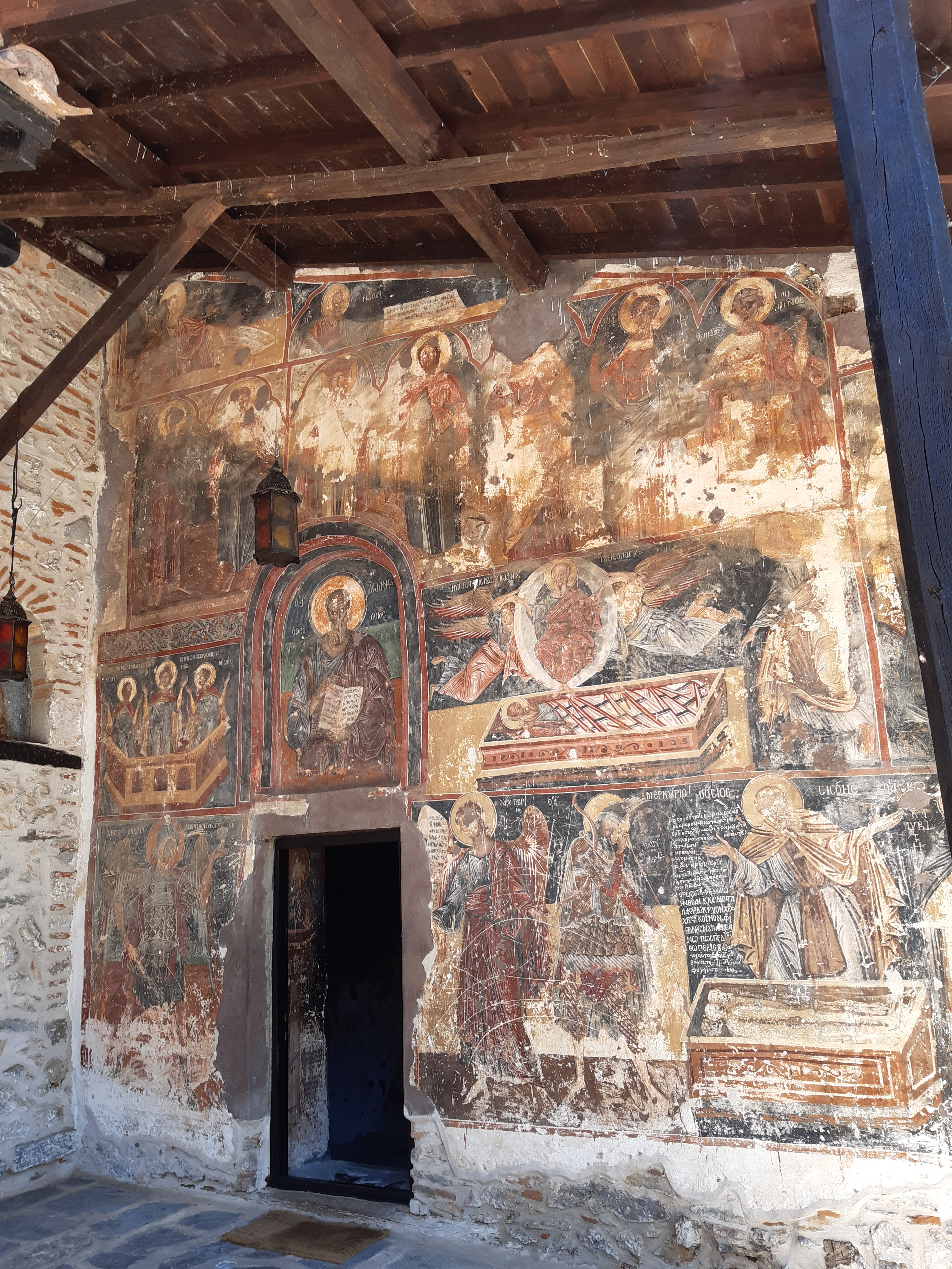 Saint John the Evangelist Church, Saint Mary Mavriotissa